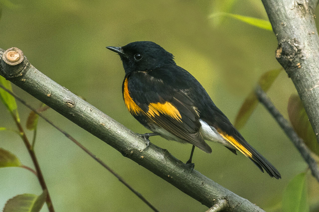 American Redstart - Magee Marsh - Ohio_14052017-FJ0A6586